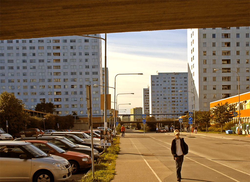 Let's make the high-rises blue so noone will be able to tell them from the sky!